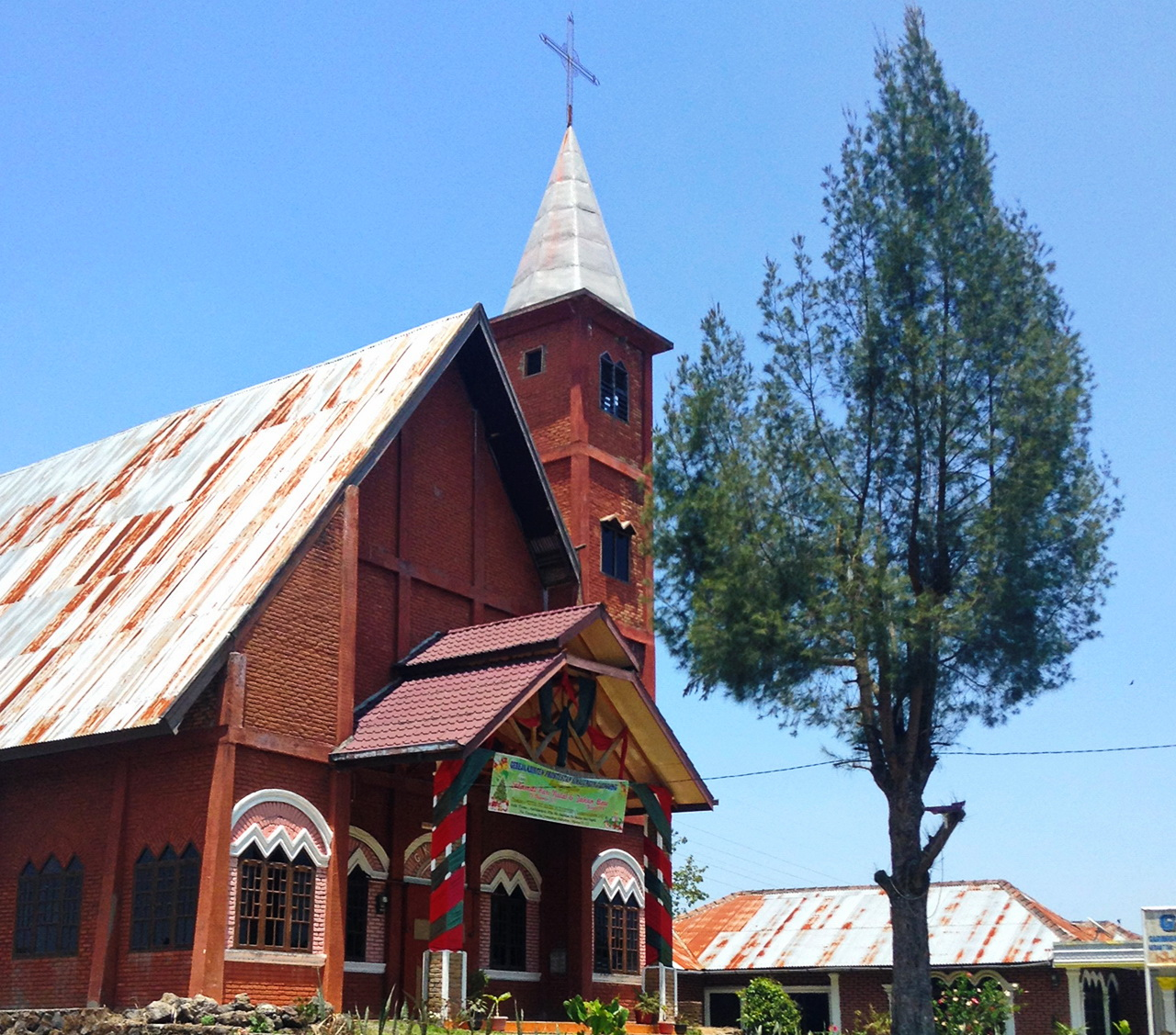 GKPS Garingging, Church in Garingging, Merek, Karo